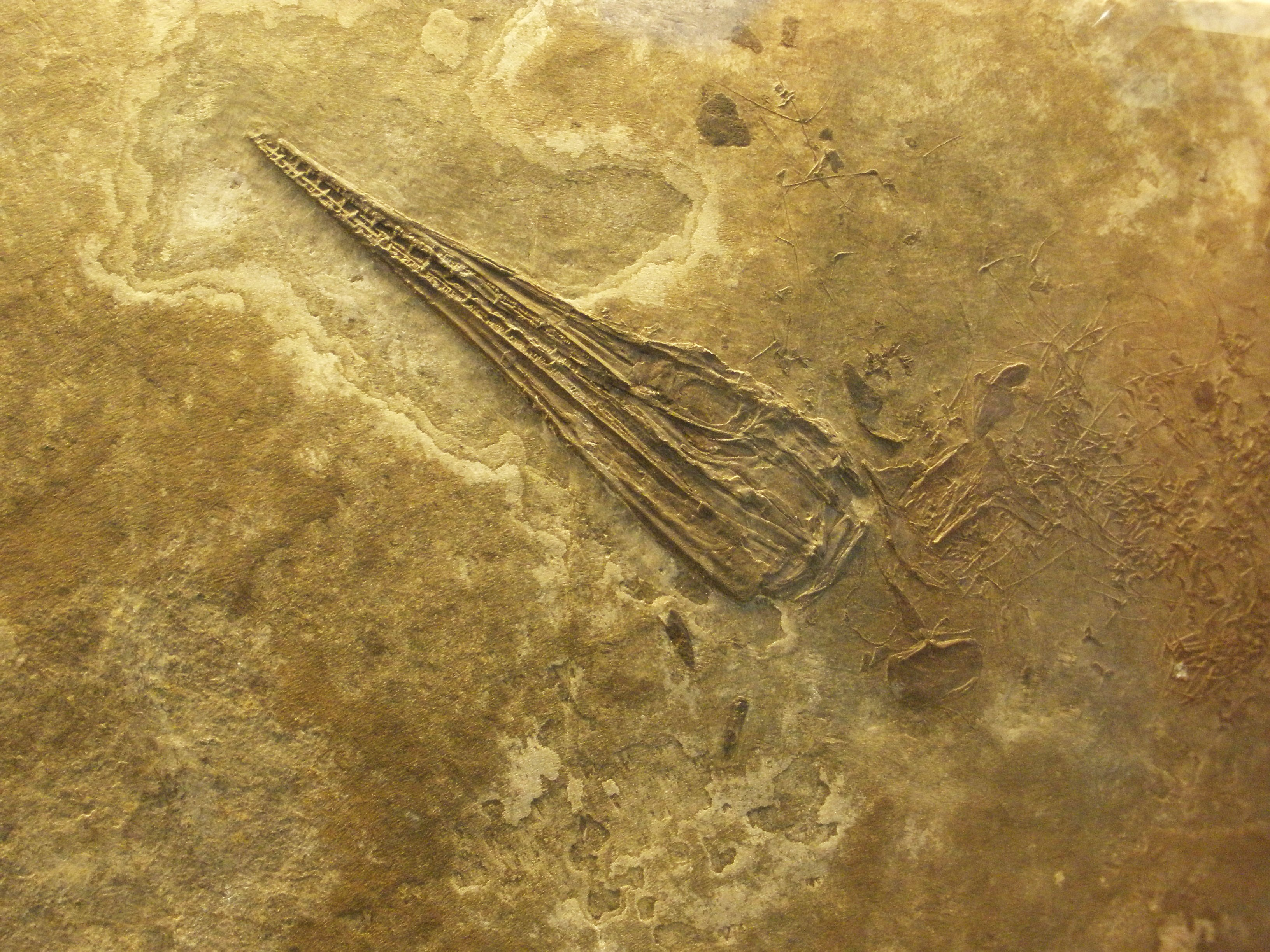 fossil saurichthys